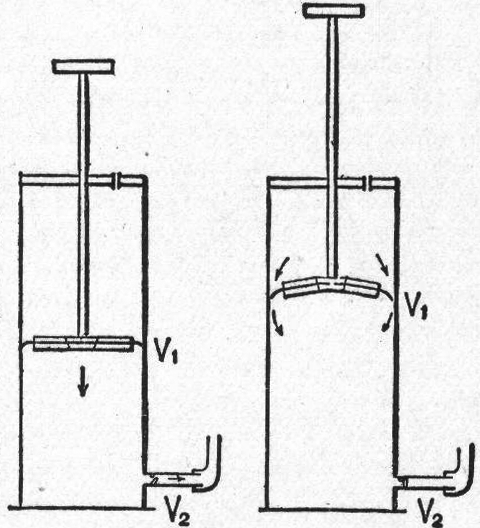 Single-acting bicycle pump